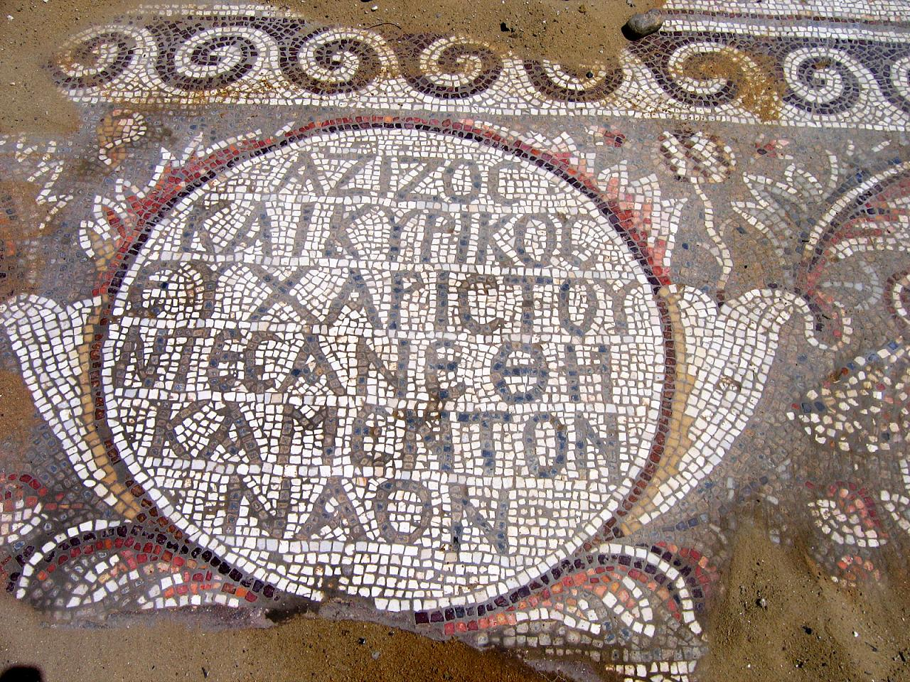 Hirbat Beit Loya, Archeological sites of Israel